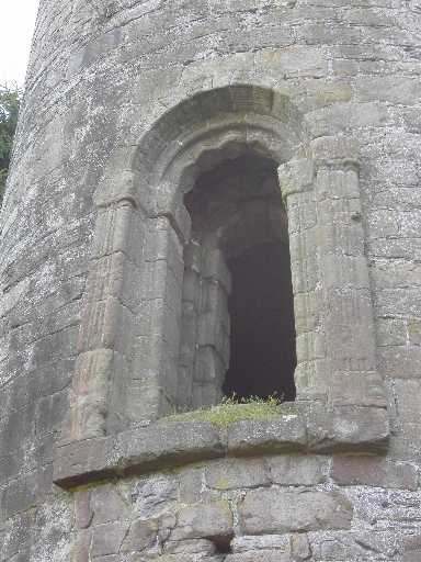 Entrance of Timahoe Round Tower, County Laois, Eire